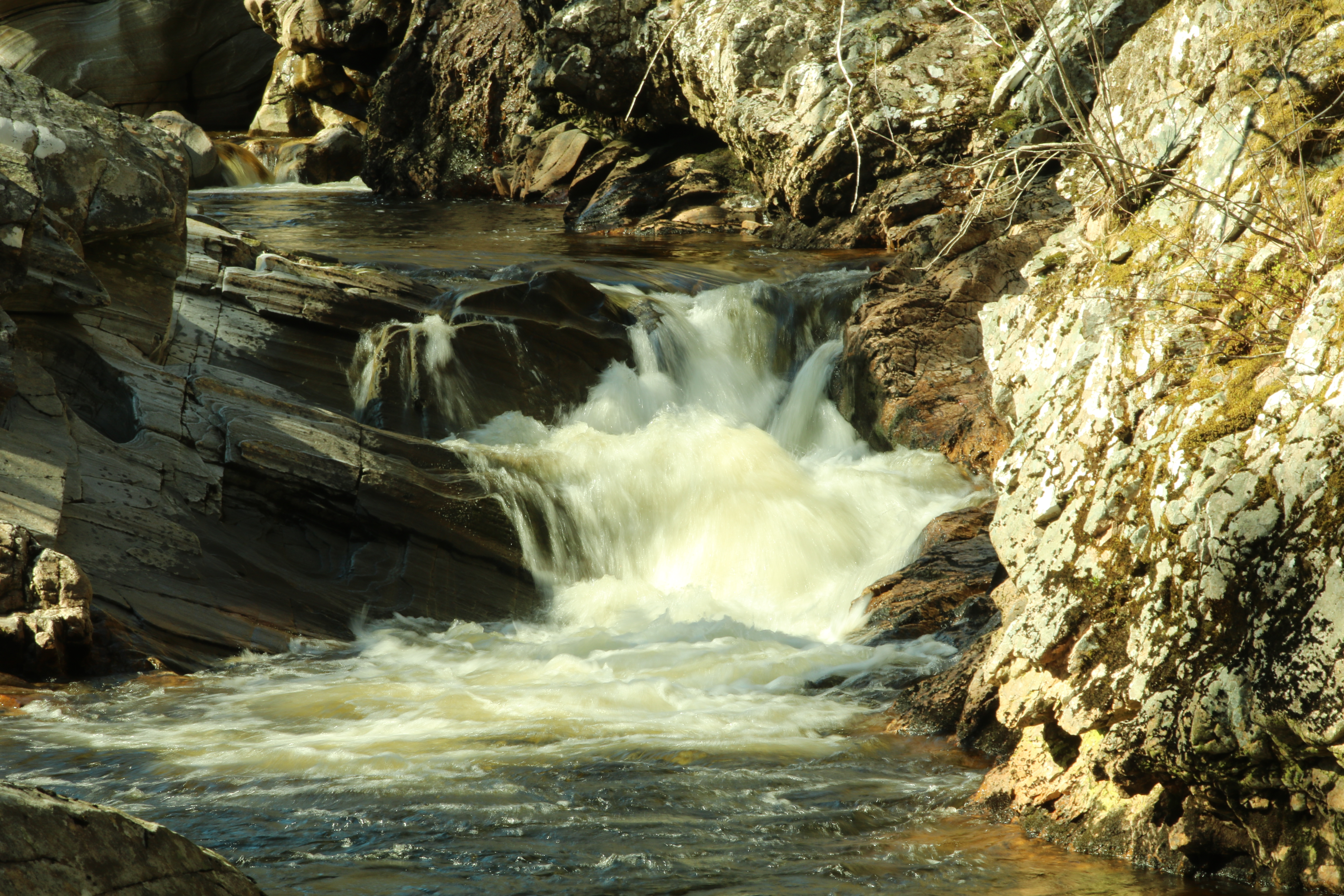 Halfway along the Track alongside the Calder leading up into Glen Banc